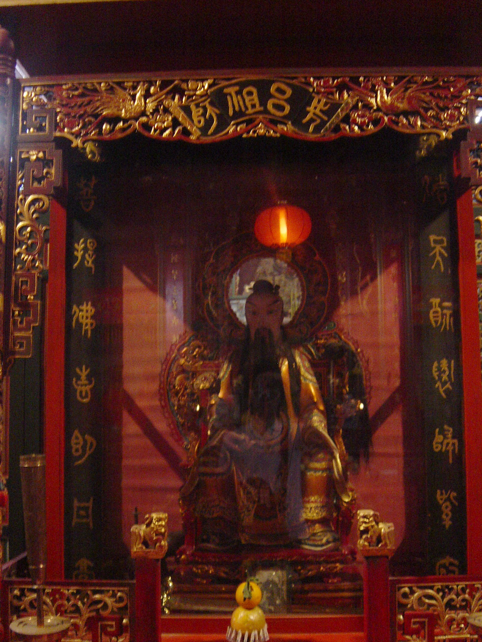 吕洞賓像(攝於灣仔玉虛宮)。Lu Dongbin (captured from Wan Chai Pak Tai Temple, Hong Kong).